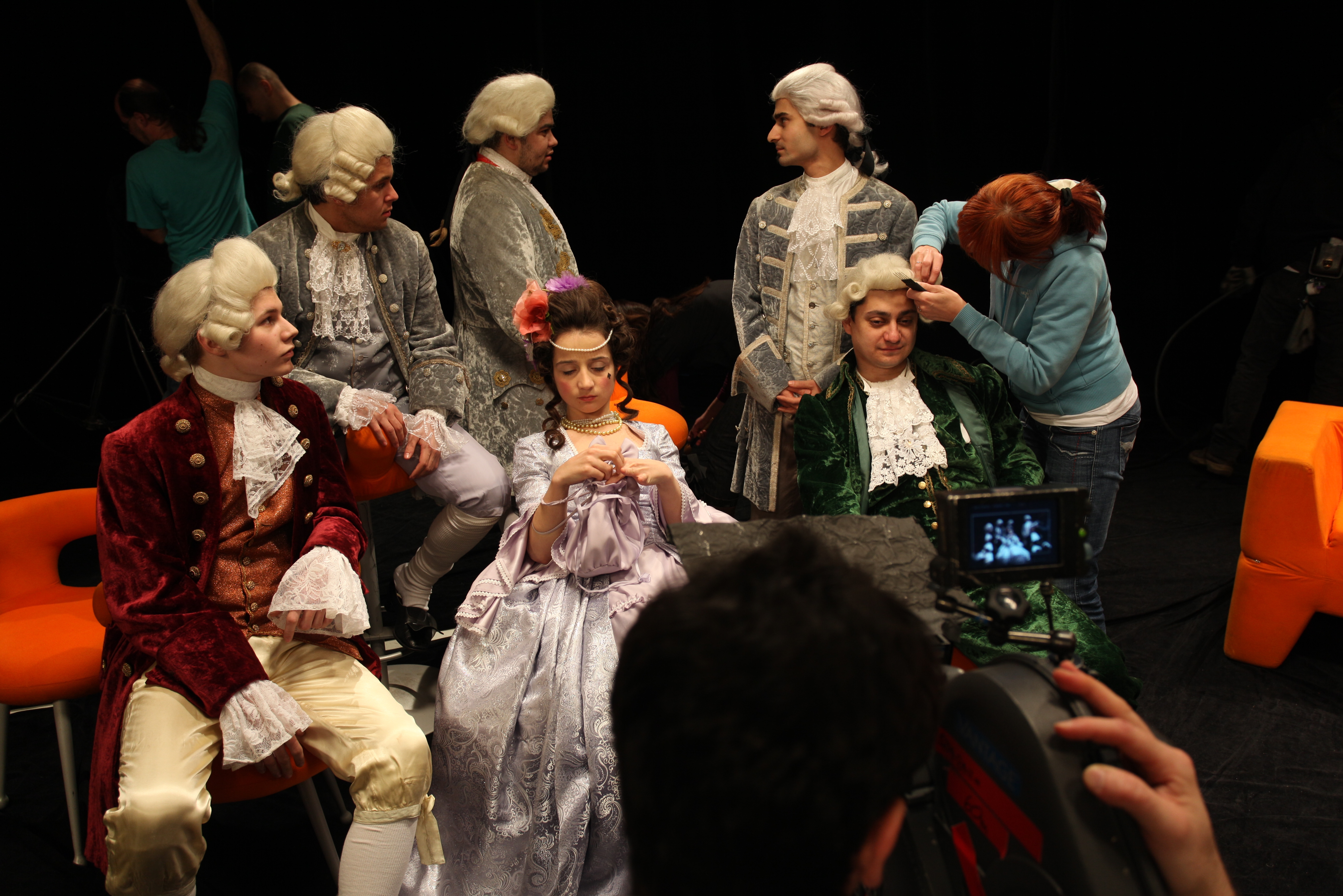 Gipsy.cz on the set of Do You Wanna video shoot